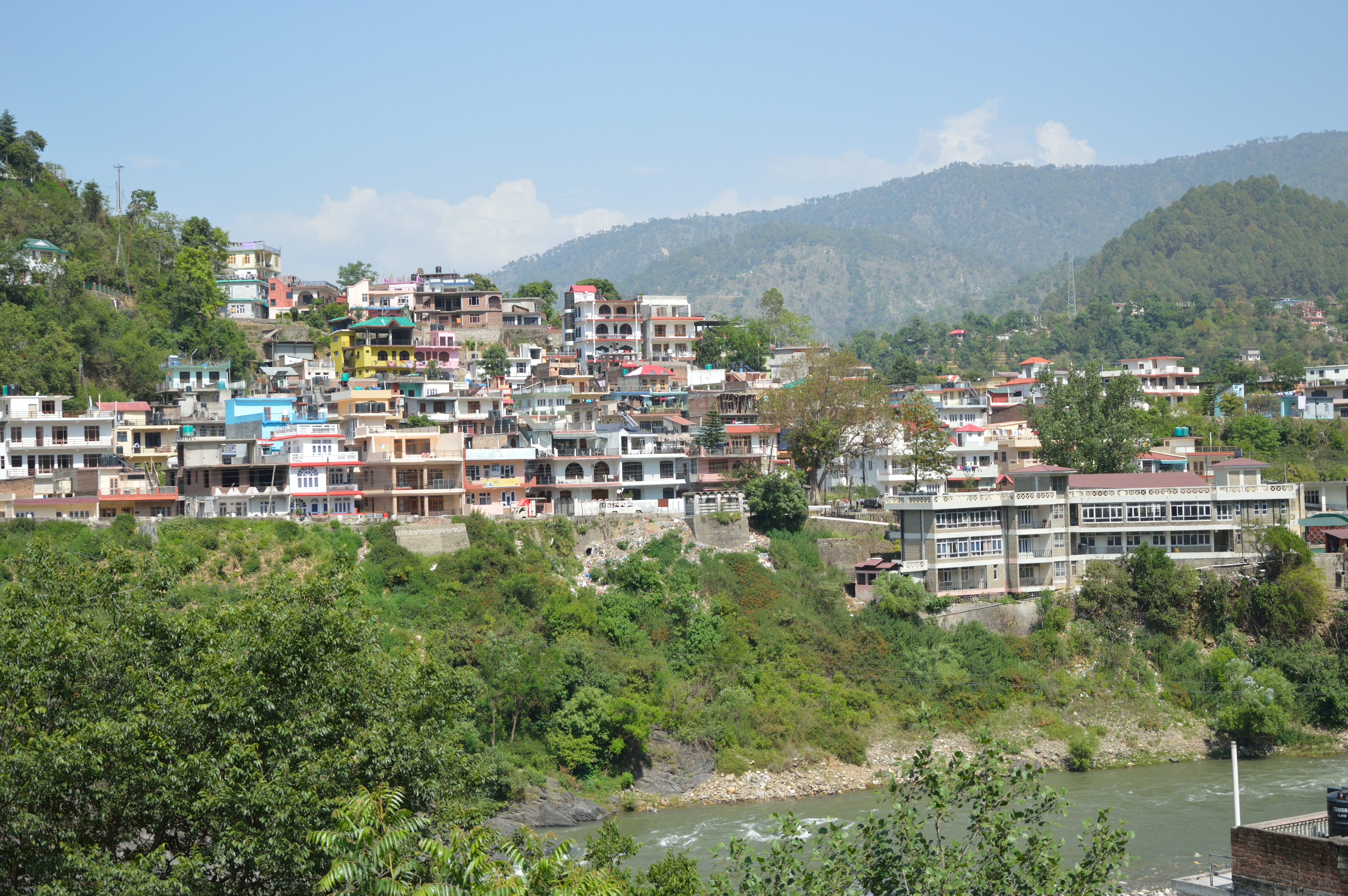 Photographed in Himachal Pradesh.